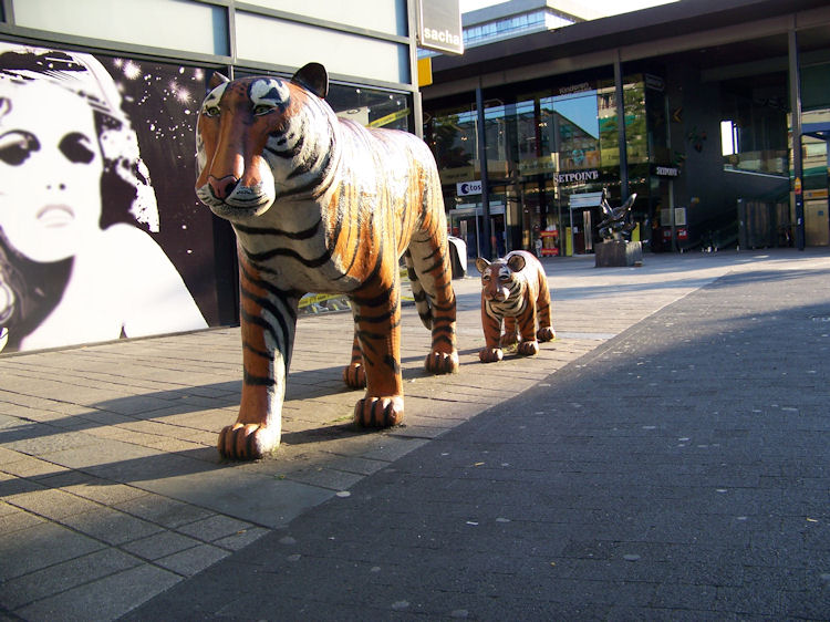 Artwork Tijgers by Homme Veenema in Emmen